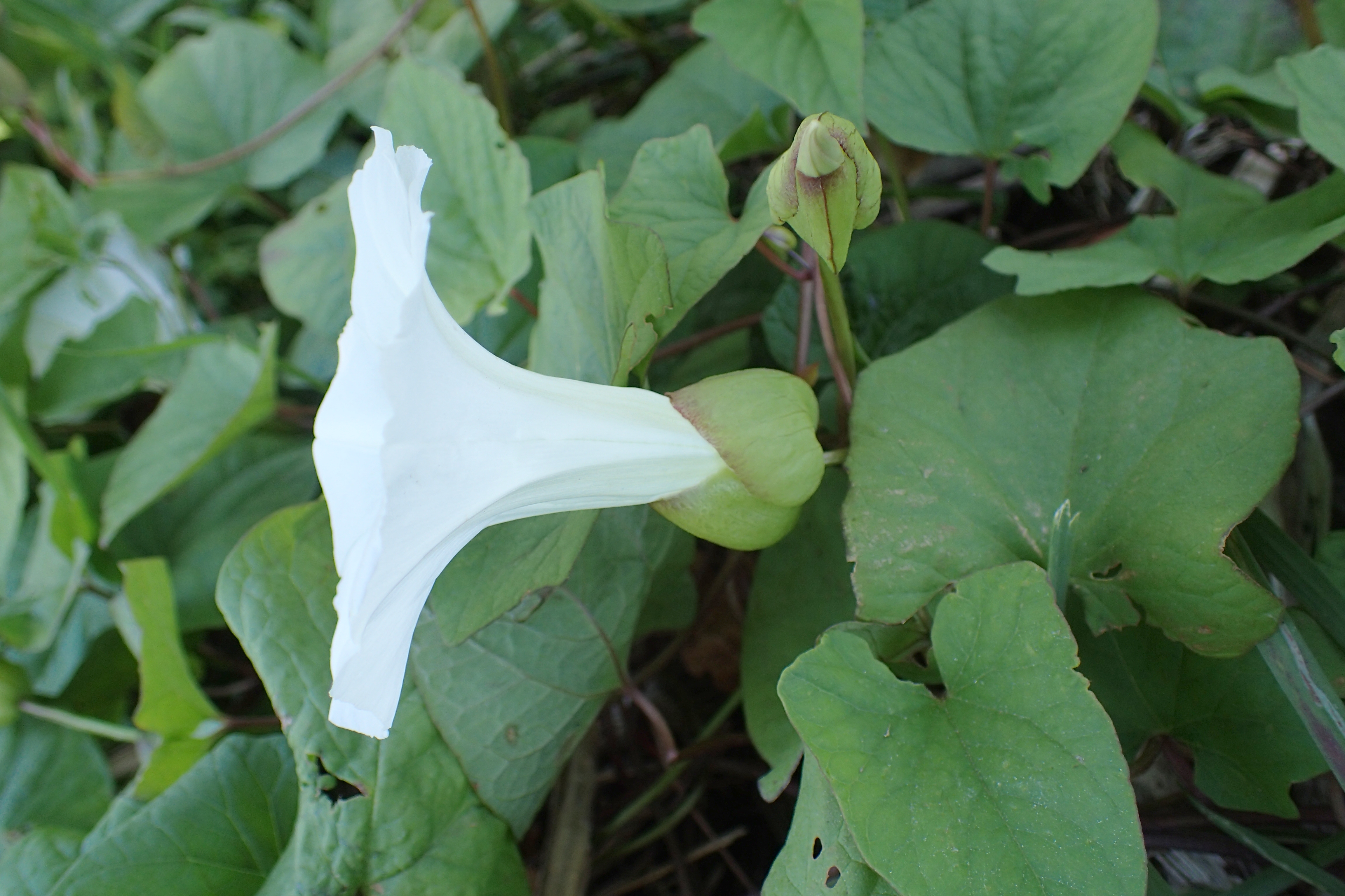 Calystegia silvatica in Totaranui, Tasman (New Zealand)